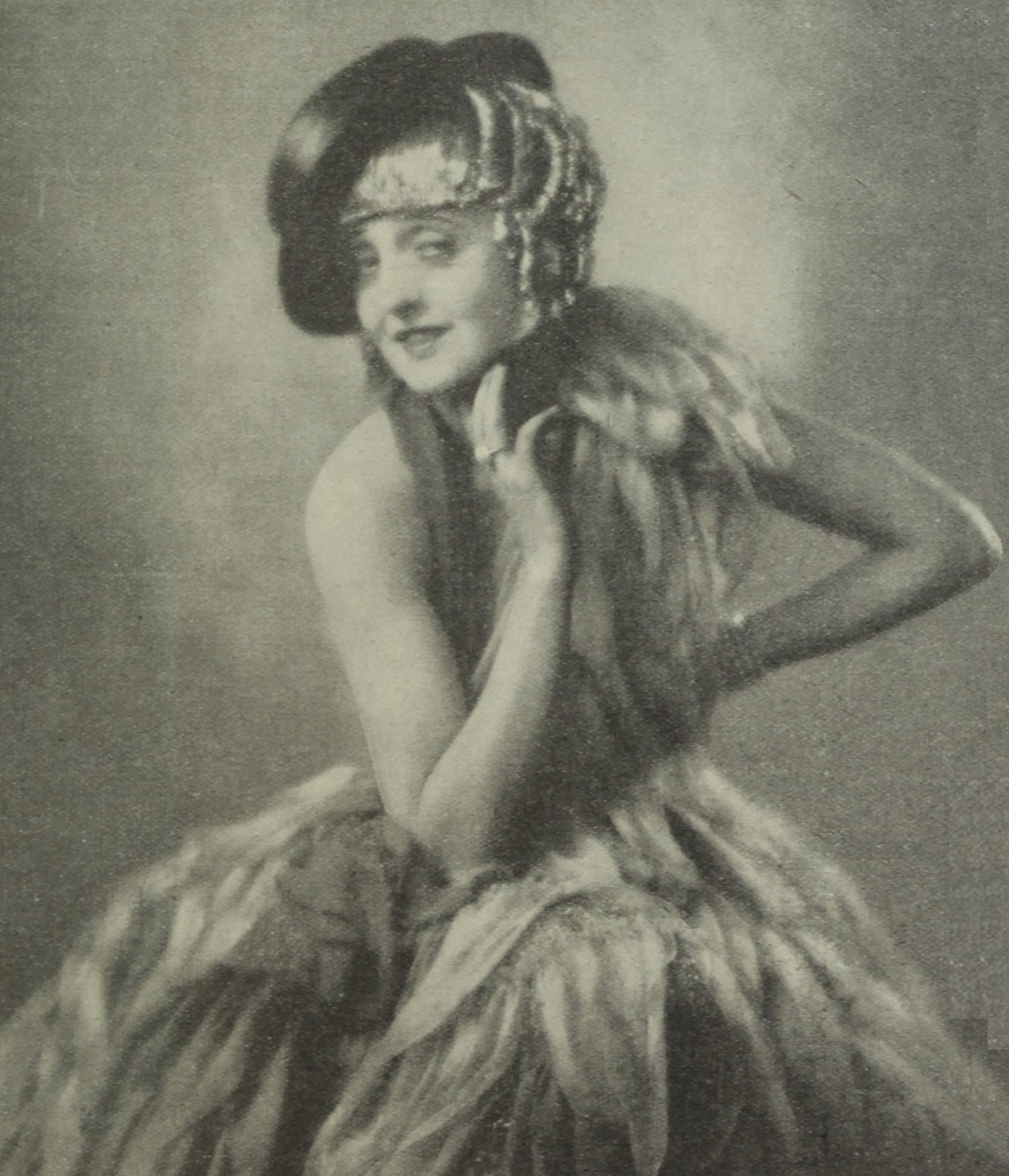 Maria Ley (1898–1999), Dancer, choreographer, director and lecturer for dance. From 1937 wife of Erwin Piscator (1893–1966).